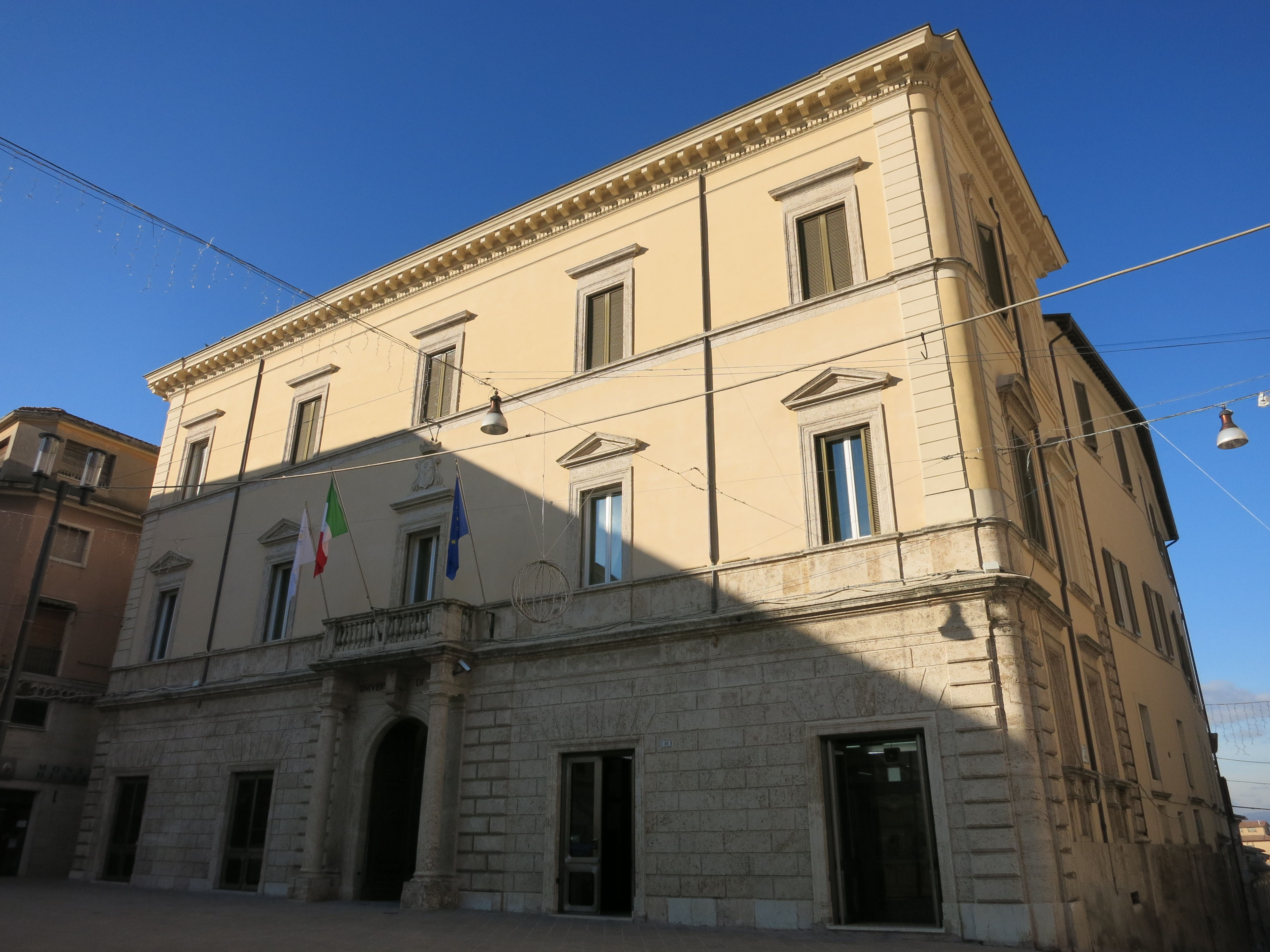 Dosi Delfini Palace - Rieti, Lazio, Italy